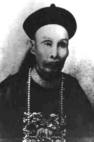 Photograph of Liu Yongfu (1837–1917)